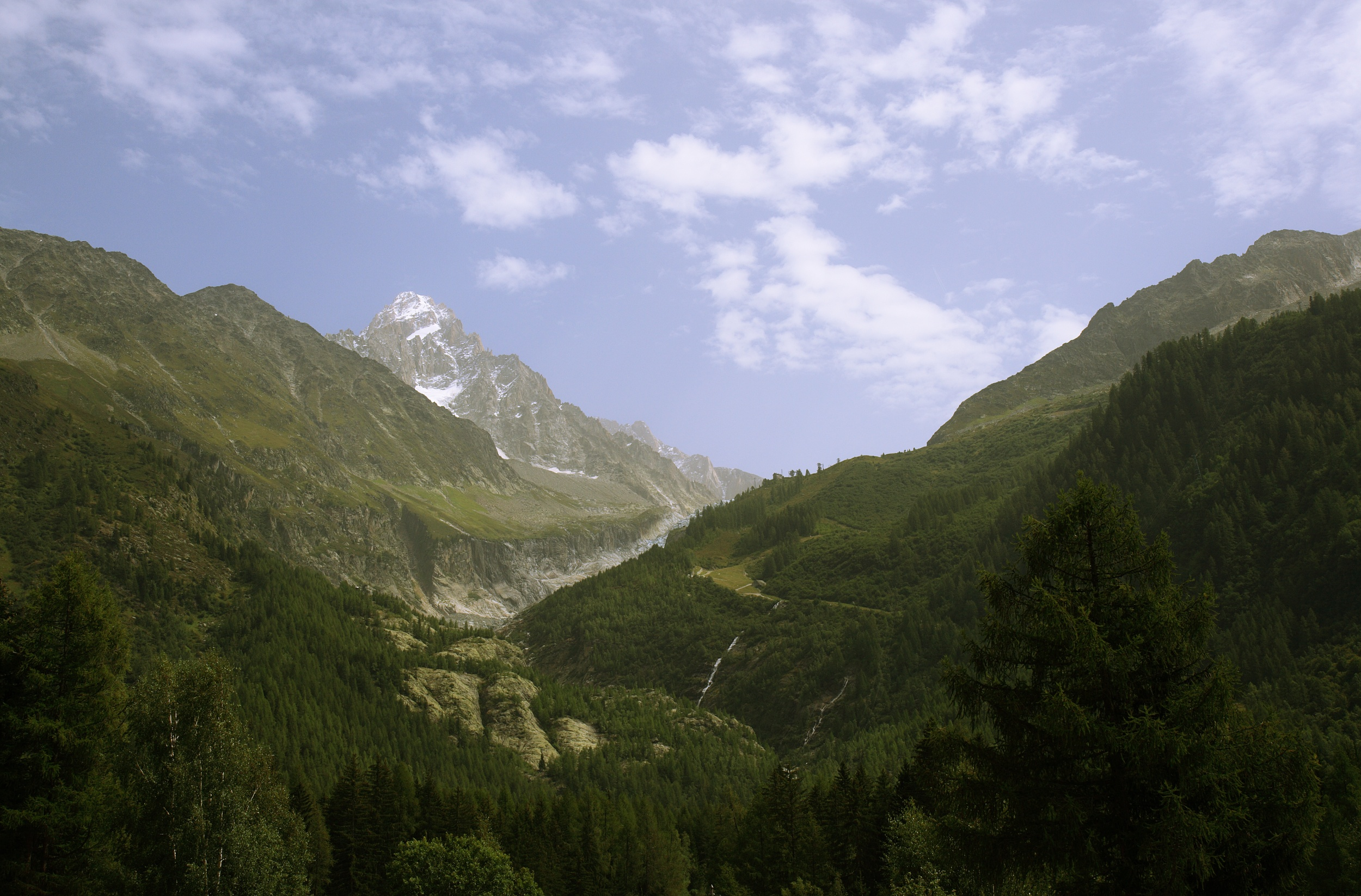 Glacier of Argentière, near Argentière, in the valley of Chamonix, French Alps.